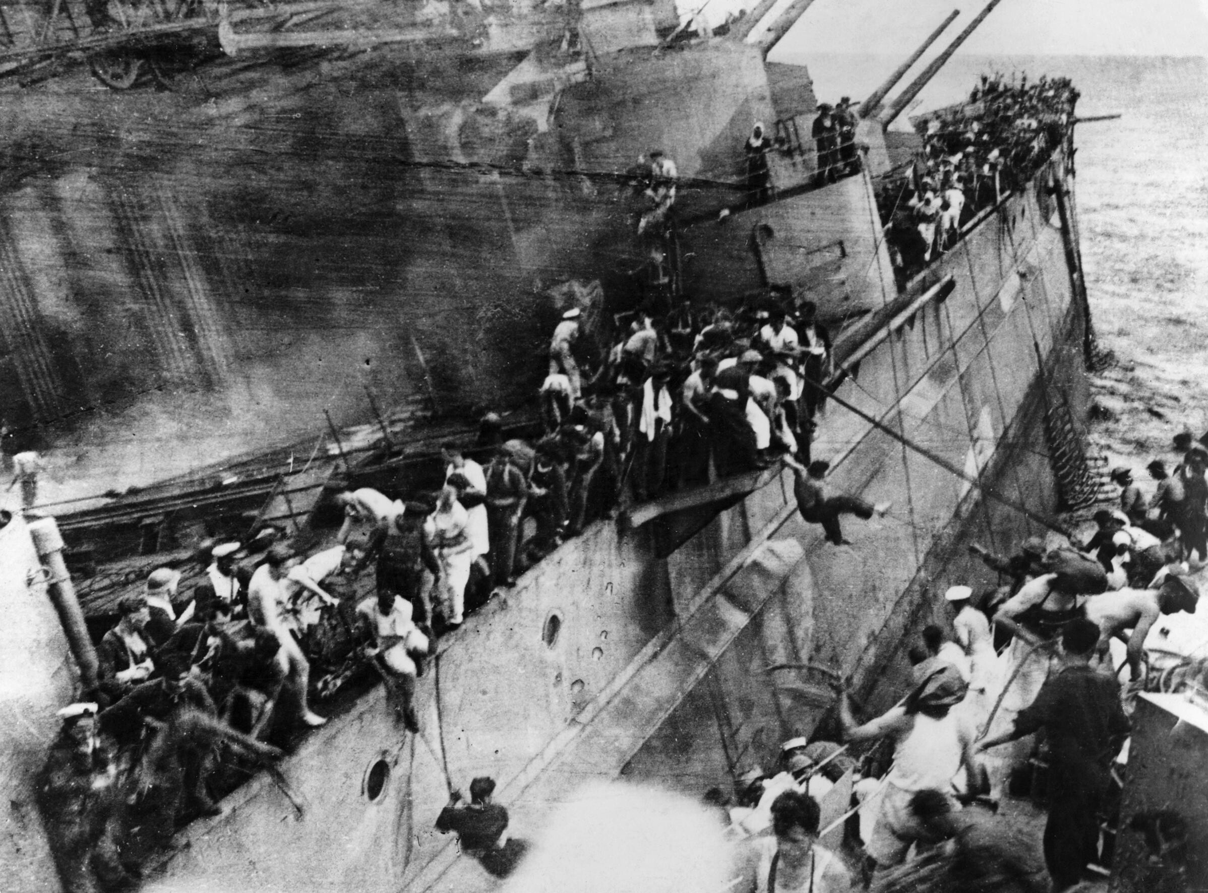 The Sinking of HMS Prince of Wales by Japanese Aircraft Off Malaya, December 1941 The crew of HMS PRINCE OF WALES abandoning ship, after torpedo attacks by Japanese aircraft in the South China Sea.